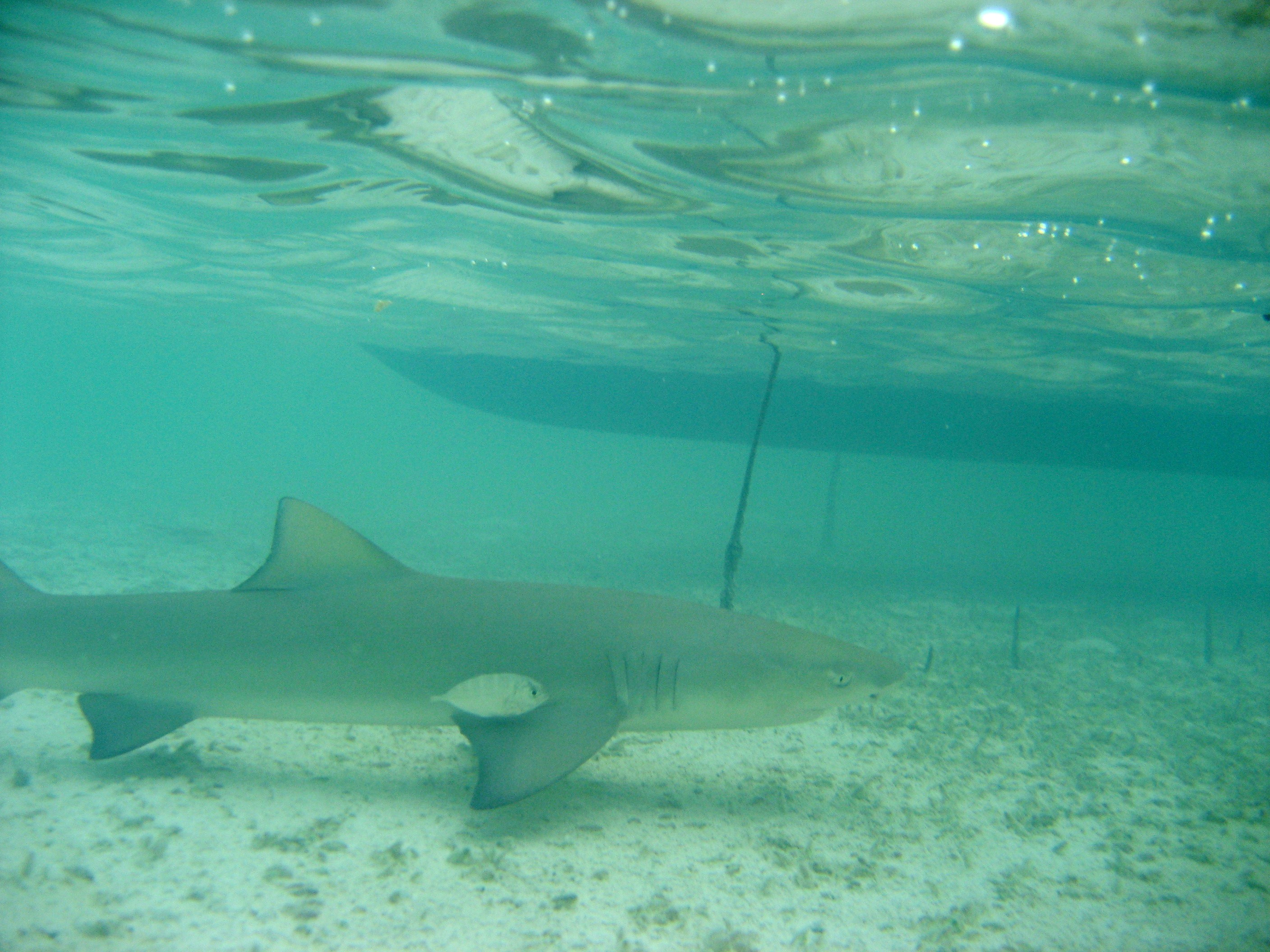 Lemon shark (Negaprion brevirostris) at Turks & Caicos